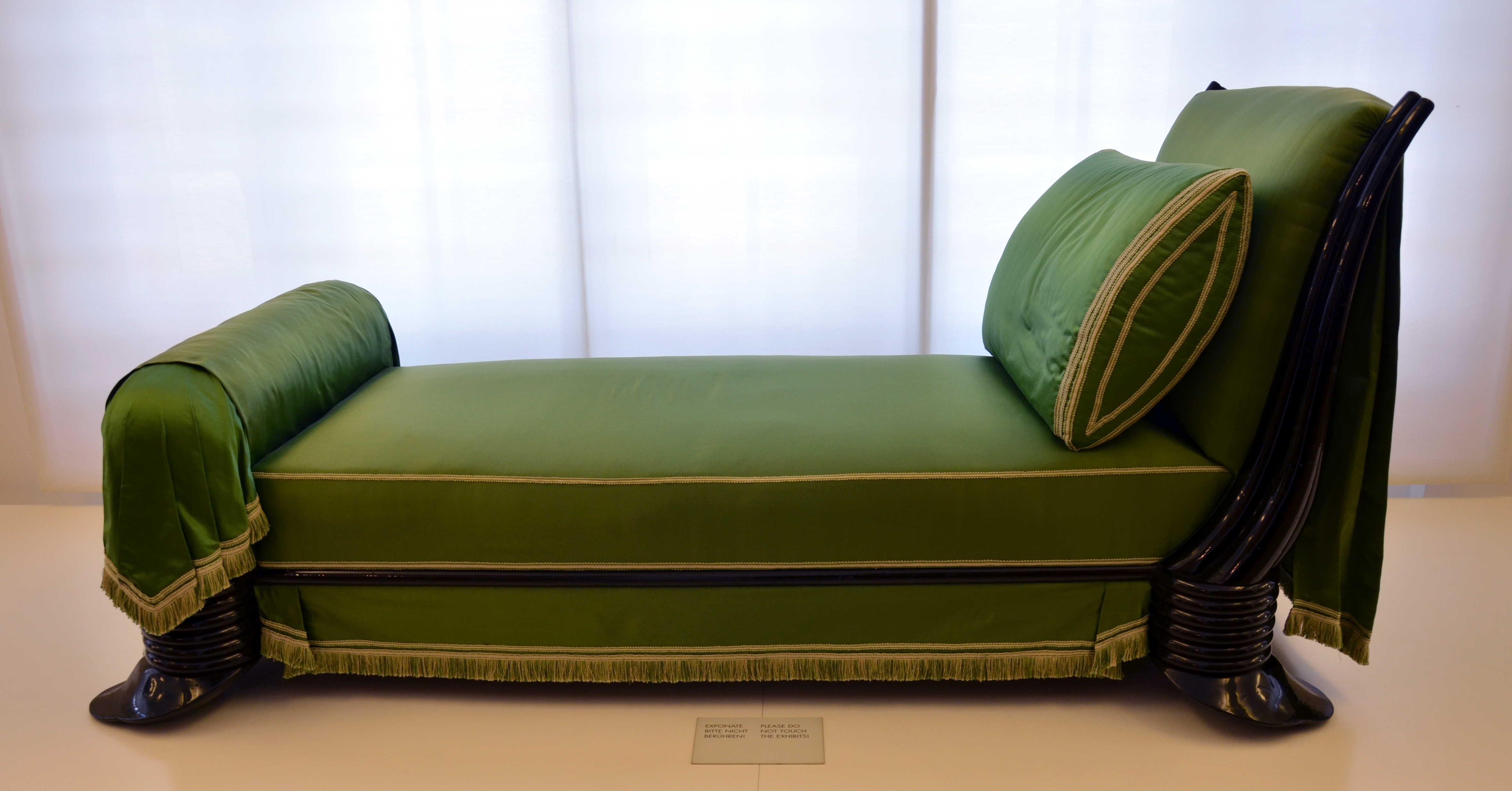 Imperial Furniture Collection ( Kaiserliches Hofmobiliendepot ) in Vienna. Daybed from the Old Palace at Laxenburg, c. 1832, made in Vienna.